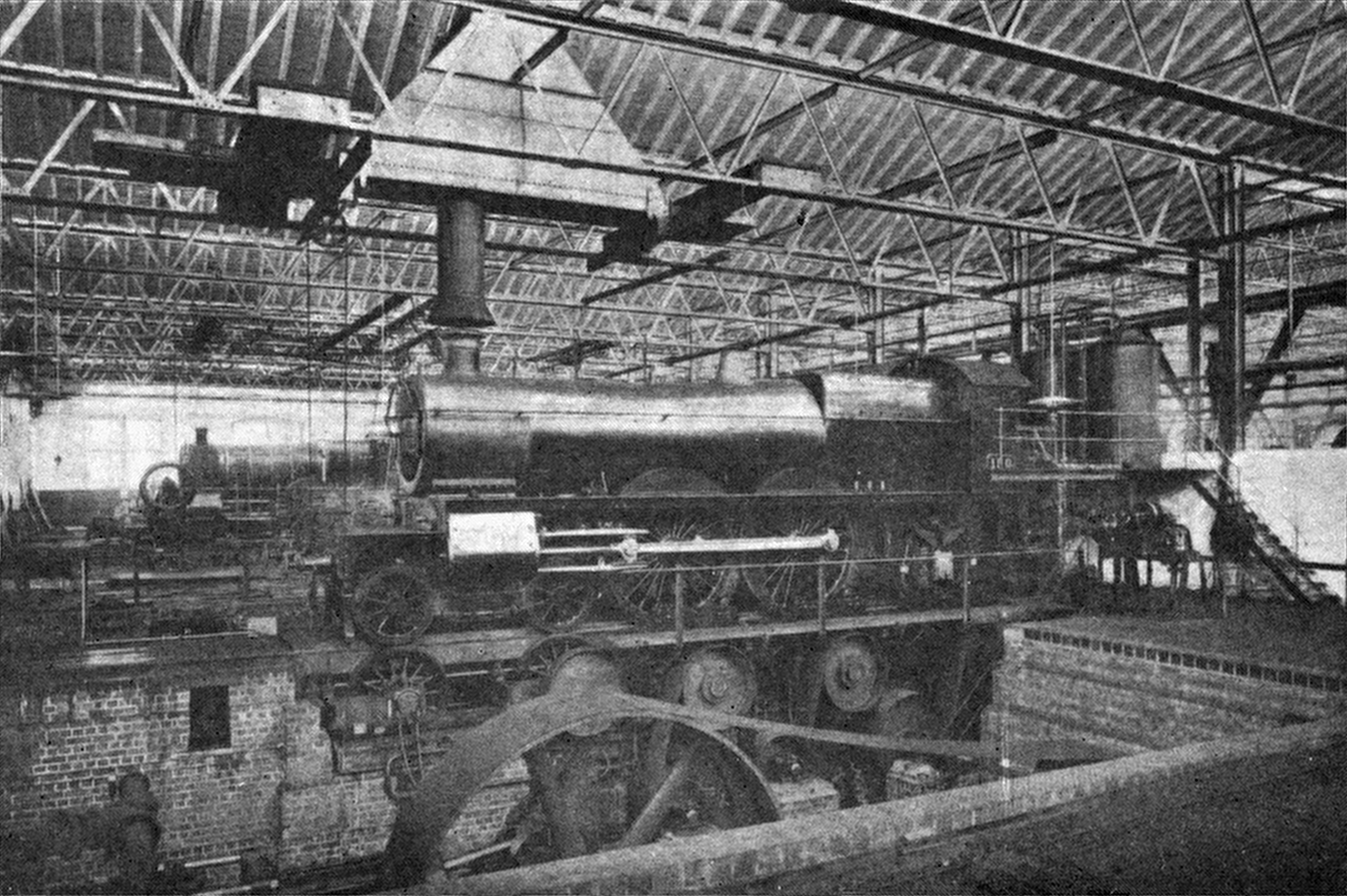 Locomotive testing plant. GWR Swindon Works. Locomotive appears to be an early ' Saint ' class, in the period when these were taper-boilered 4-4-2 atlantics (later rebuilt as 4-6-0). The number could be either 180 or 190.